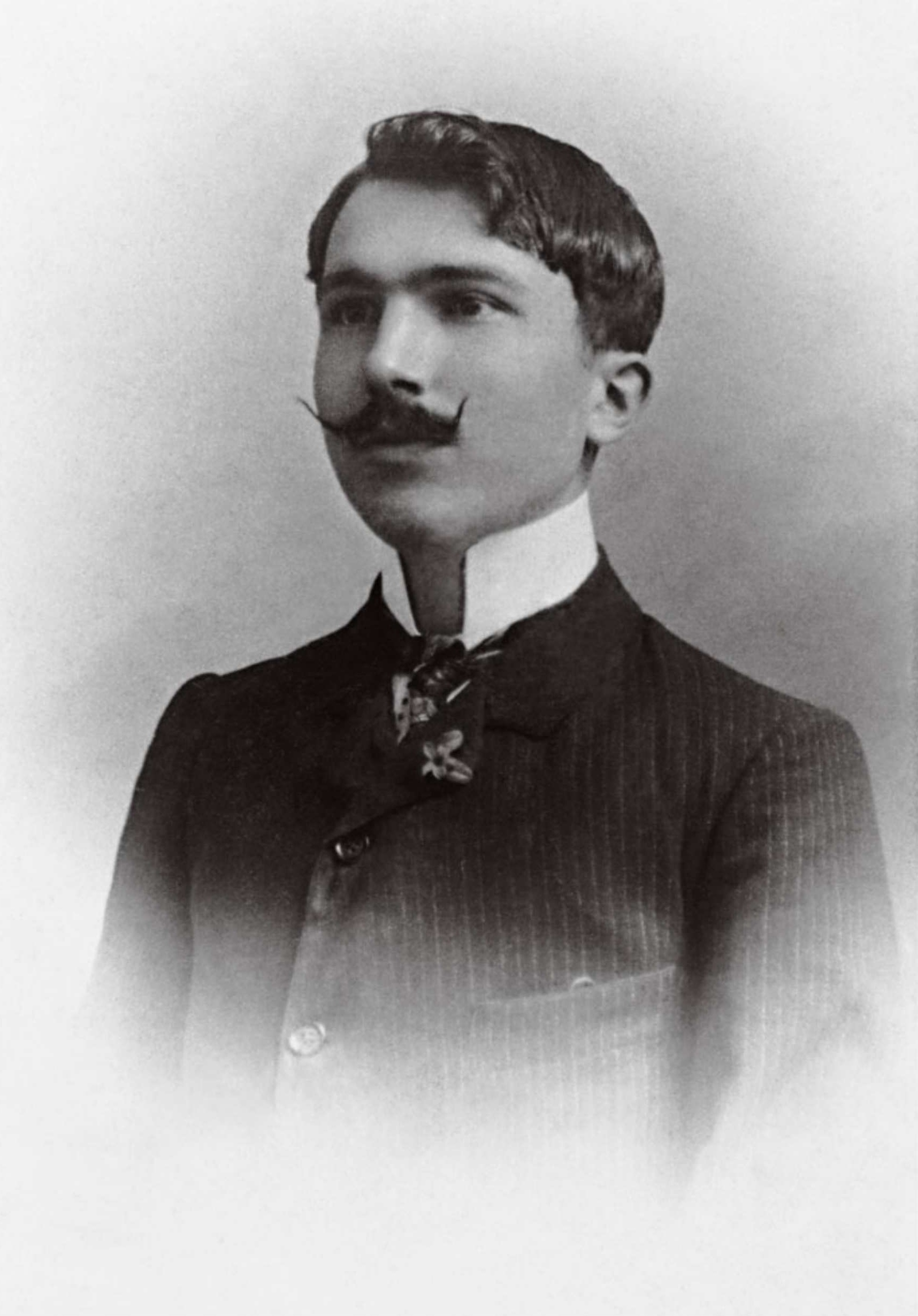 A photograph of Nikos Kazantzakis from 1904